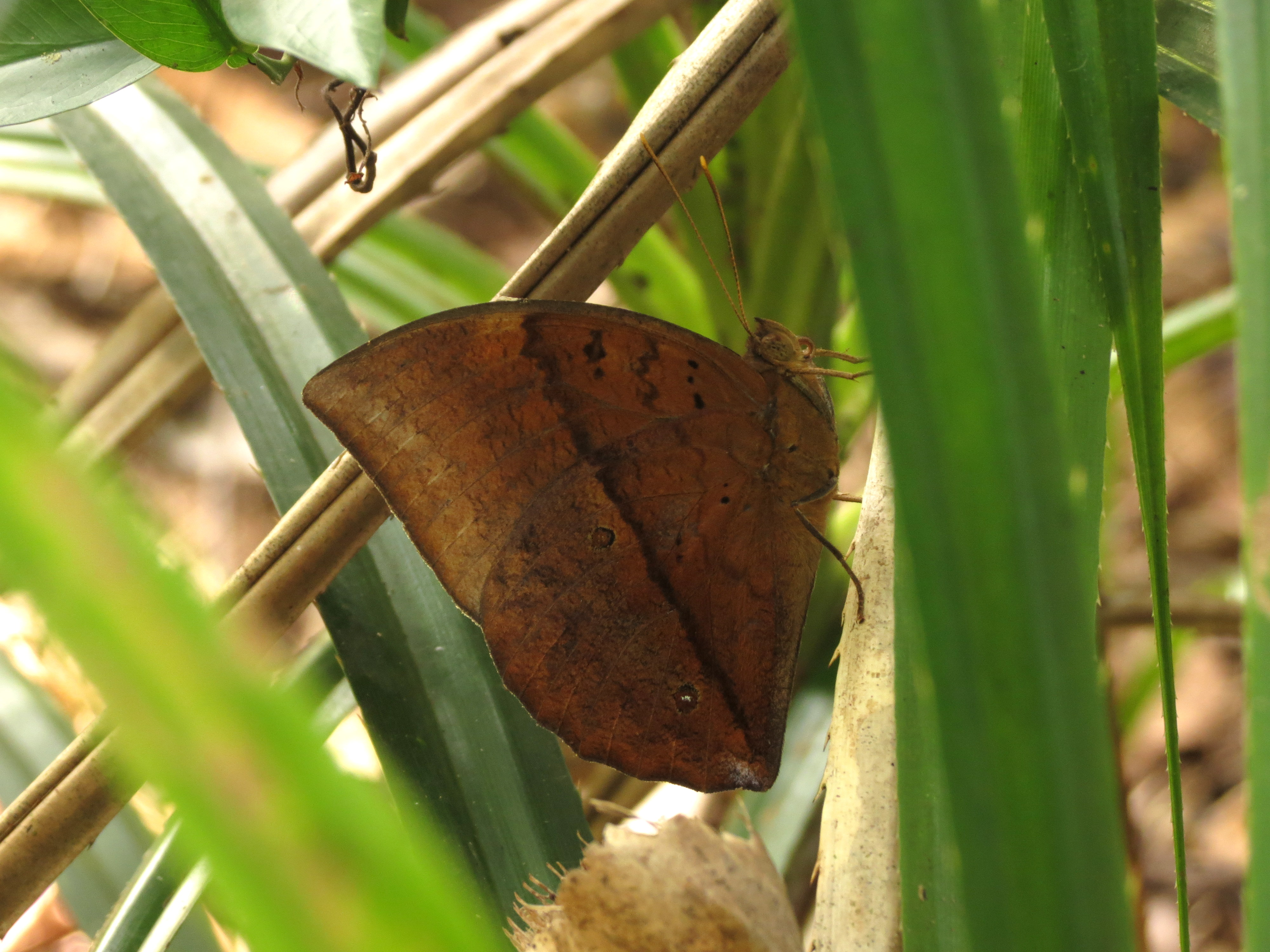 Southern Duffer(Discophora lepida) seen in Thattekad Kerala near bamboo trees